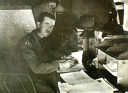 AWM Caption: Portrait of Major Richard Williams DSO, commanding the 1st Squadron of the Australian Flying Corps at his desk; Palestene: Mejdel Jaffa Area, Ramleh.